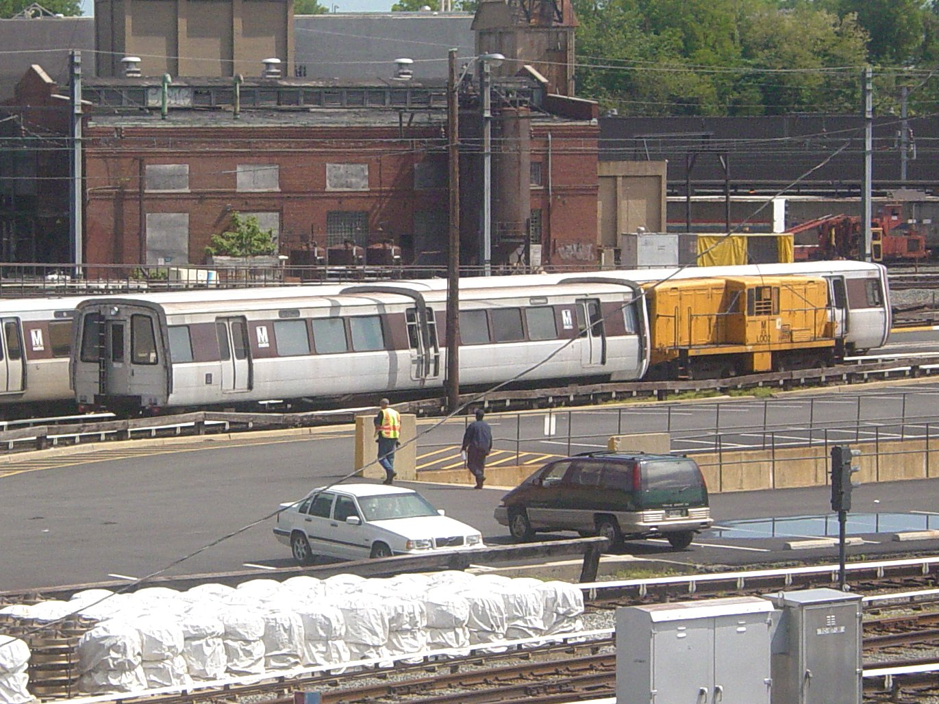 Rohr 1028, orphaned after the Federal Triangle derailment in 1982, serves as the Washington Metro's clearance car.